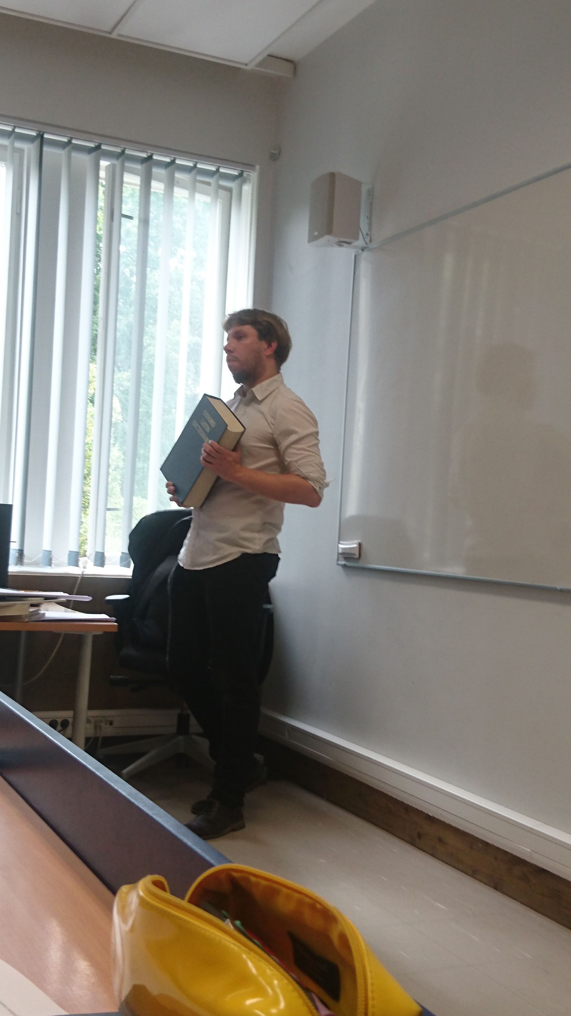 Estonian Latinist Neeme Näripä introducing a Latin dictionary to new students of classical philology in the University of Tartu, 4 September 2018